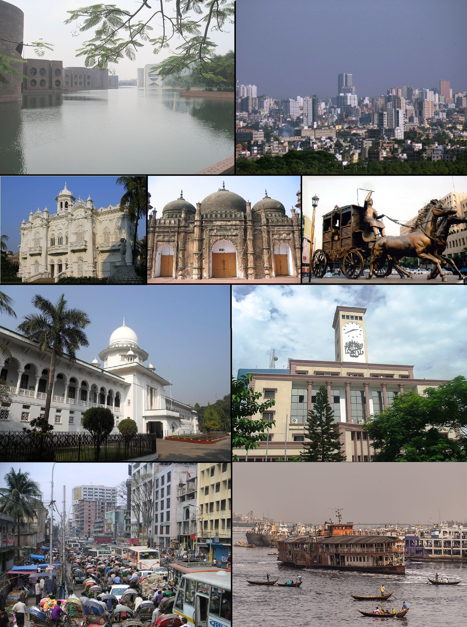 Top row:National Parliament Complex and Motijheel Financial District. Second top row:Rose Garden, Khan Mohammed Mridha Mosque and Ramna. First bottom row:Supreme Court of Bangladesh and RAJUK Bhaban. Second bottom row:Dhaka rush hour rickshaw traffic and ferries in Sadarghat River Port